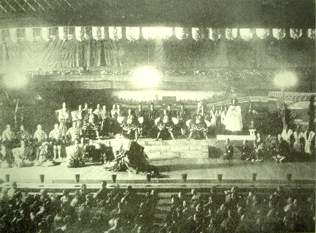 The November 1895 production of Shibaraku at Tokyo Kabukiza. Center on the state is Kamakura Gongorō Kagemasa, played by Danjūrō Ichikawa IX.